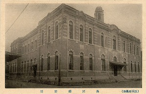 Postcard of Nagaoka Post Office